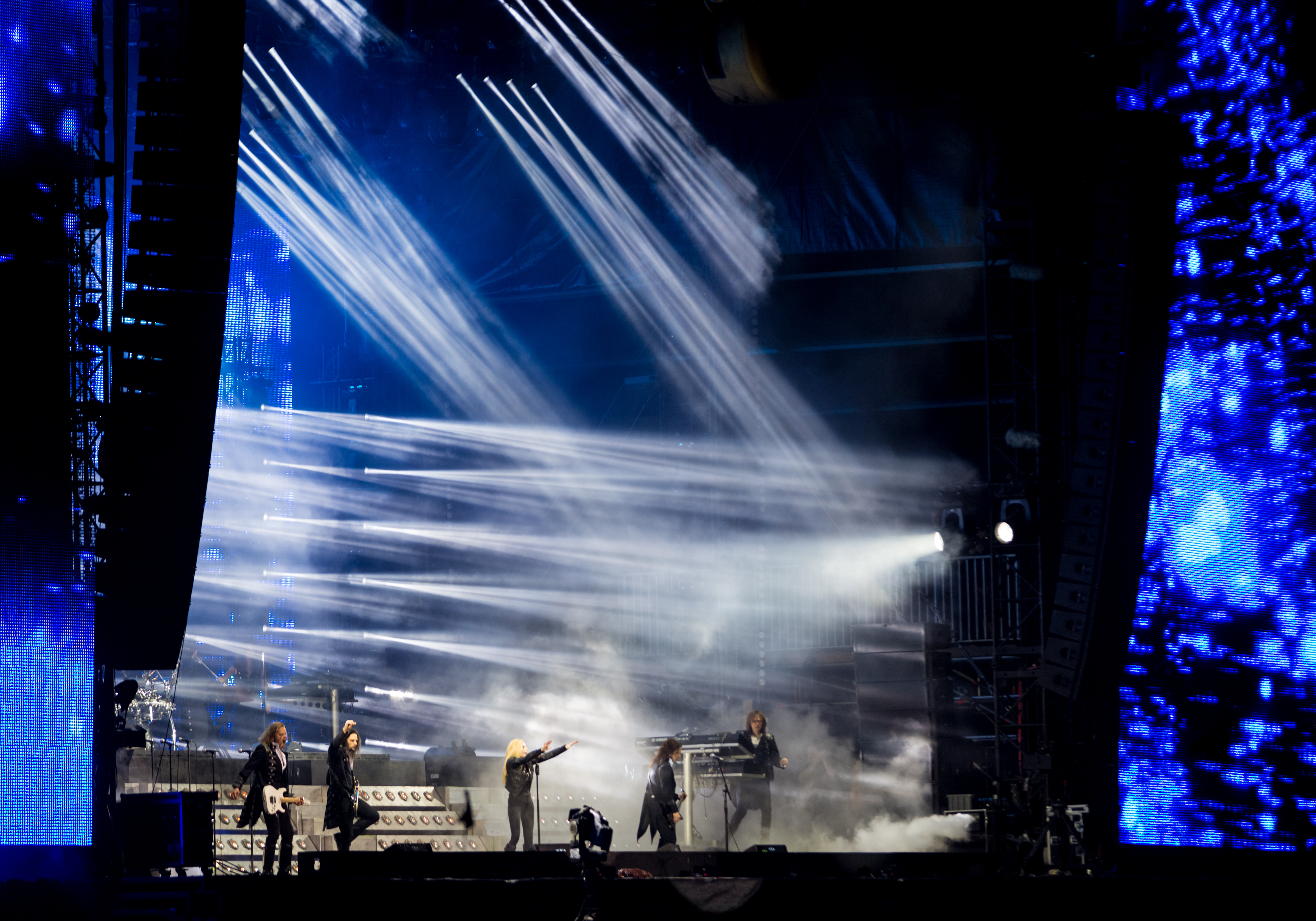 Savatage & Trans-Siberian Orchestra - Wacken Open Air 2015